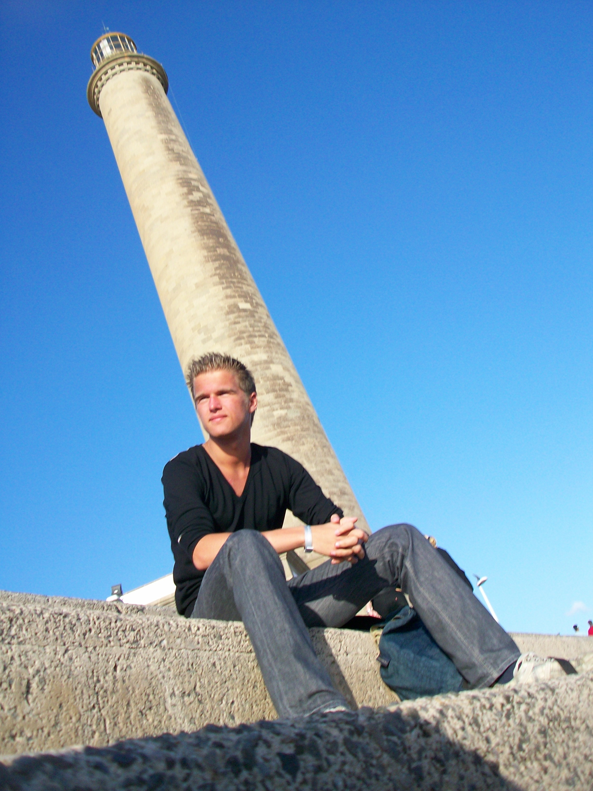 Jens Geerts